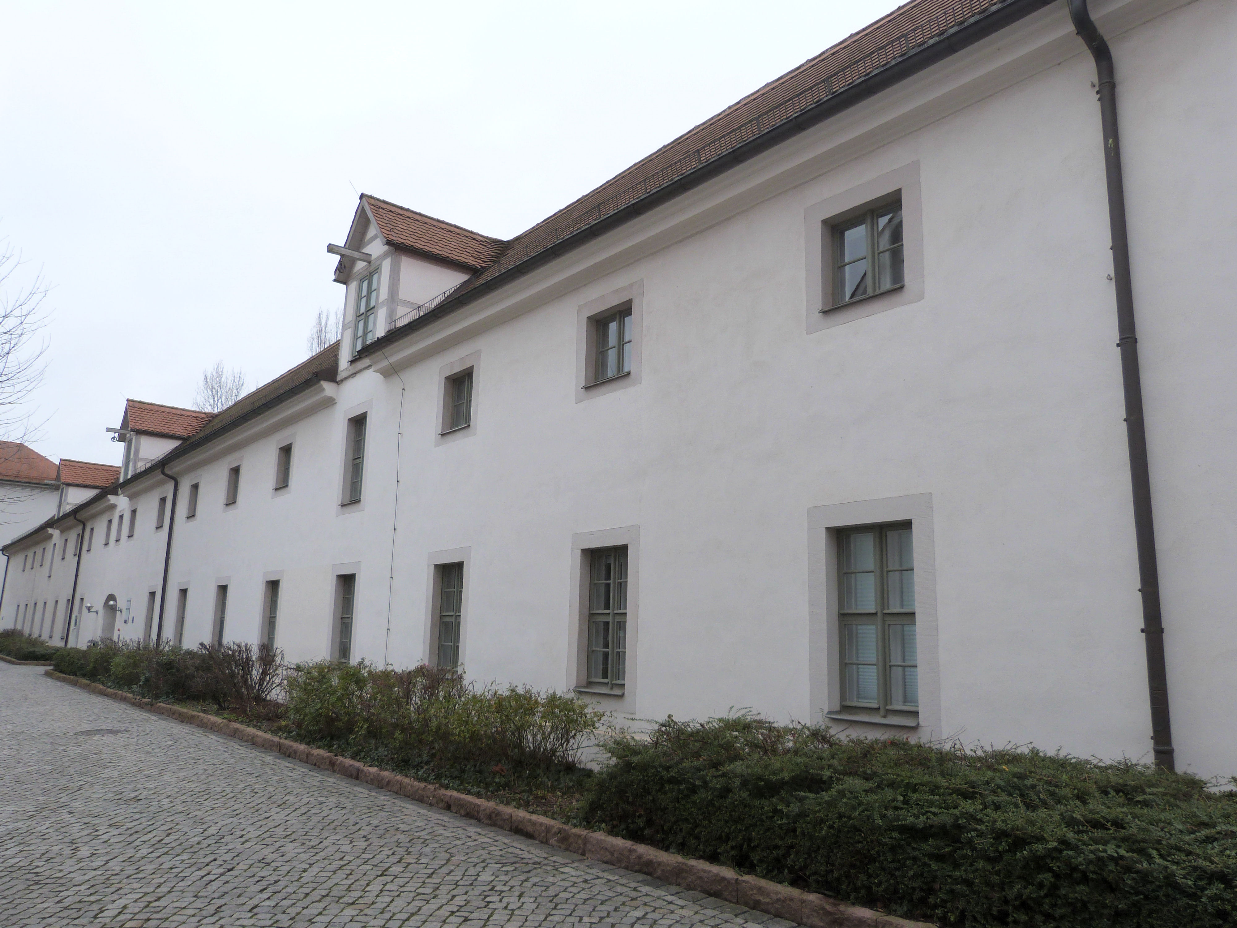 Former warehouse of the Francke foundations, house No. 30, today deanery of the Faculty of Theology of the University Halle (Saale)